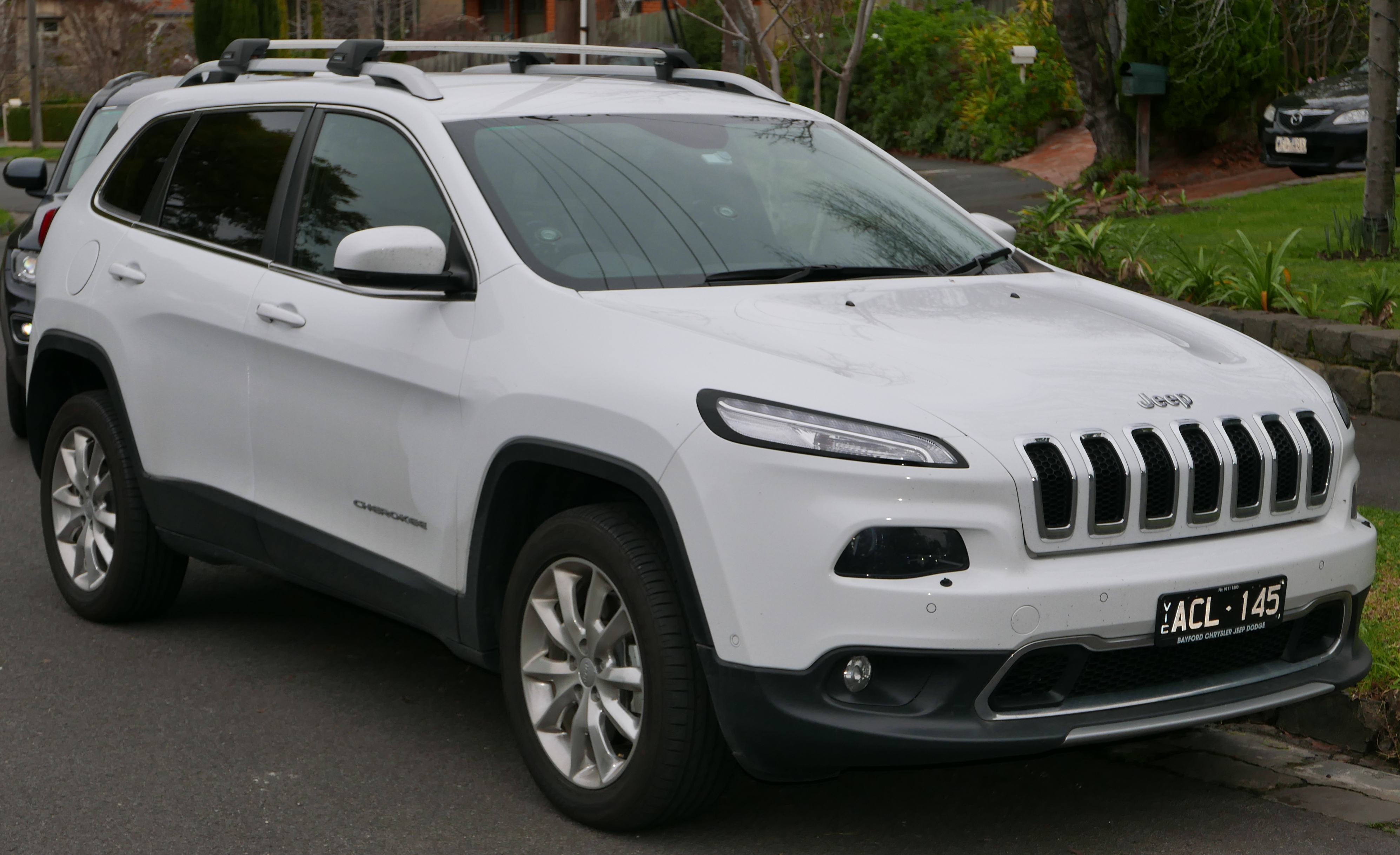 2014 Jeep Cherokee (KL) Sport wagon. Photographed in Kew, Victoria, Australia. Vehicle registration enquiry resultsJurisdictionVictoriaRegistrationACL145Chassis code1C4PJMHS9EW303498Engine codeEW303498Compliance date2014-09Year of manufacture2014